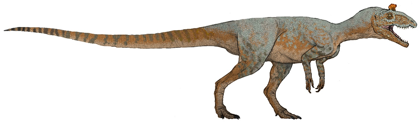 a scale restoration